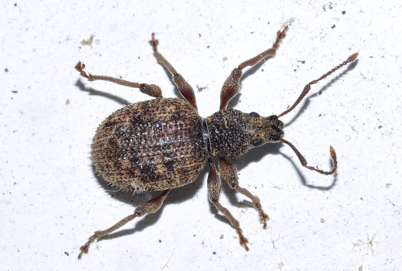 Otiorhynchus crataegi Germar, 1824. Germany: Niedersachsen, Göttingen.